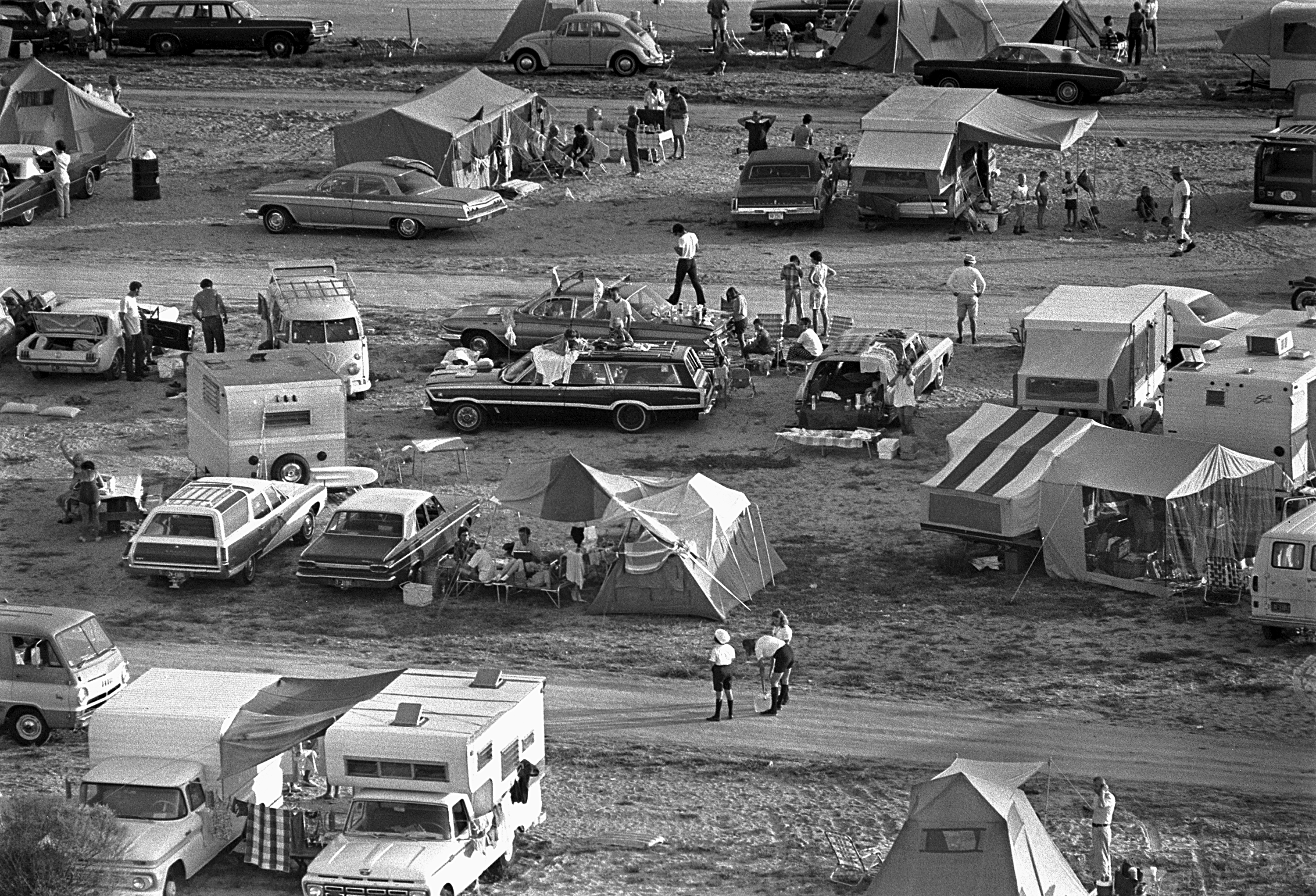 Here are some of the thousands of persons who camped out on beaches and roads adjacent to the Kennedy Space Center to watch the Apollo 11 Liftoff.